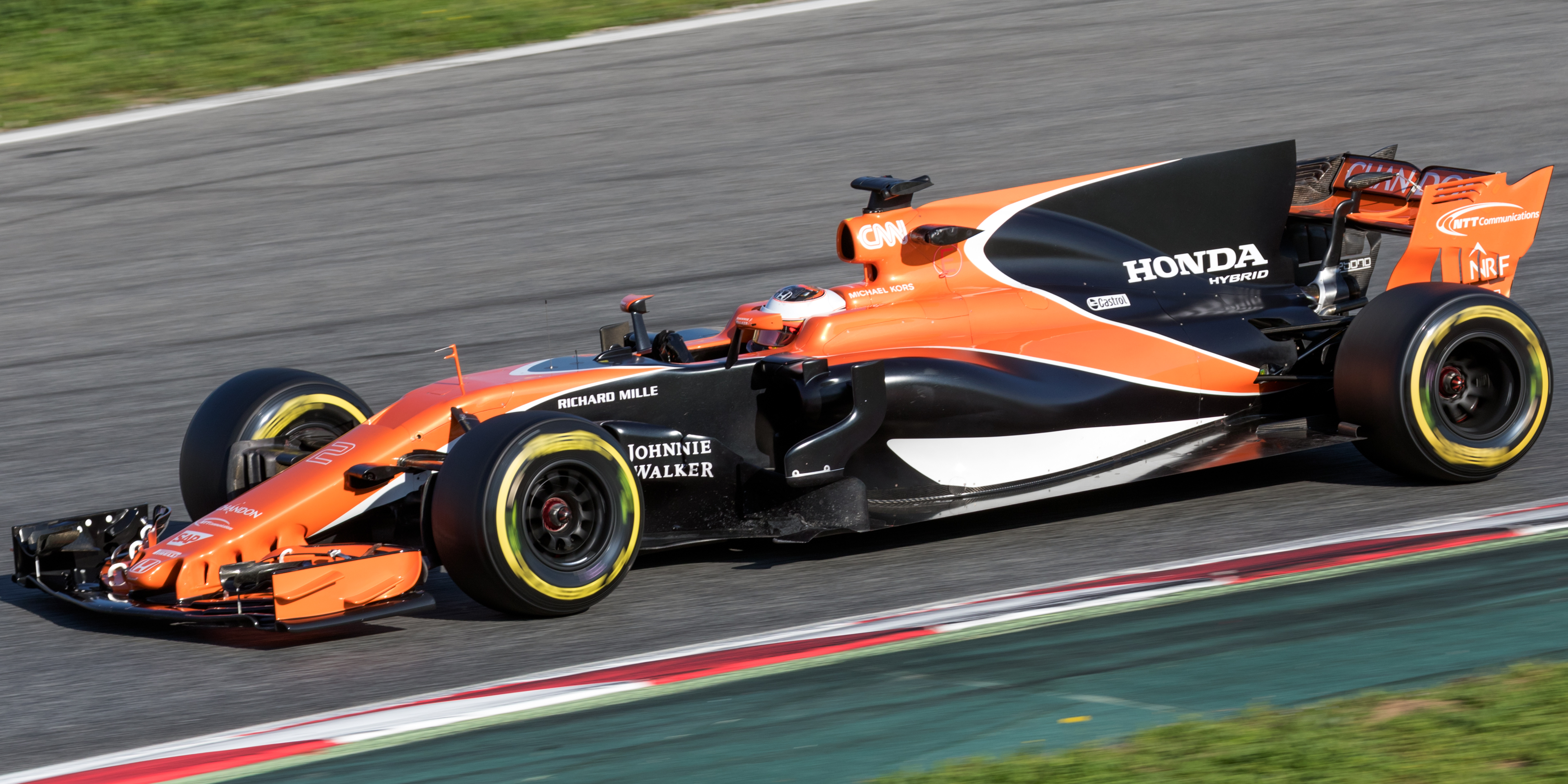 Formula One 2017 Catalonia test (27 February-2 March): Stoffel Vandoorne (McLaren)